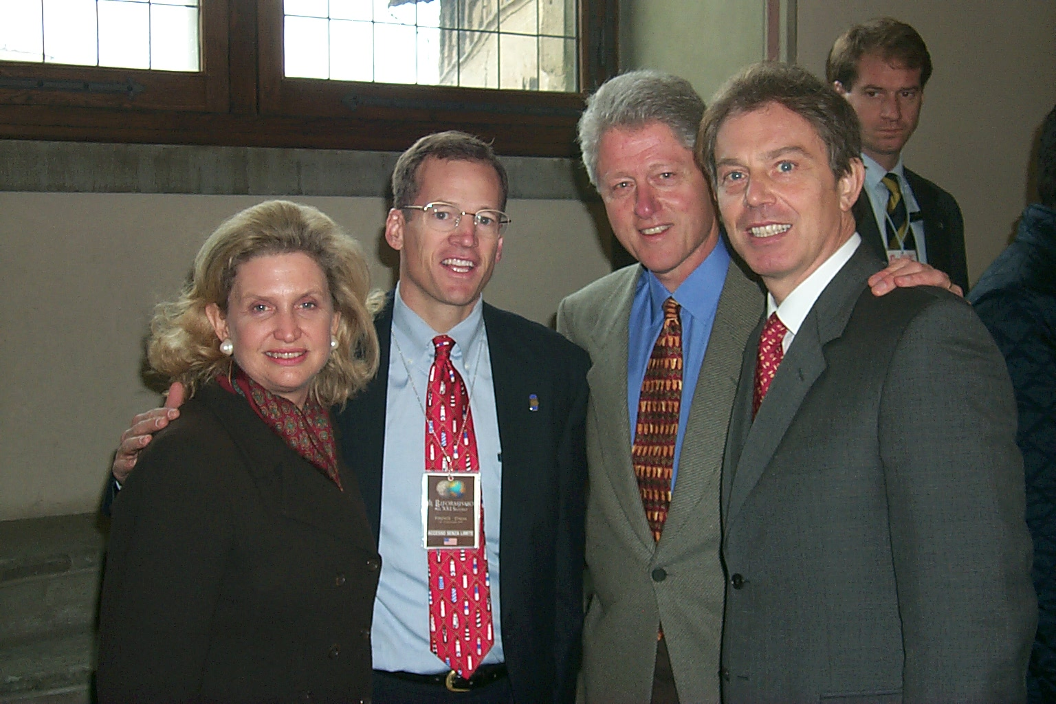 Congresswoman Carolyn Maloney meets with Congressman Jack Kingston, President Bill Clinton, and British Prime Minister Tony Blair